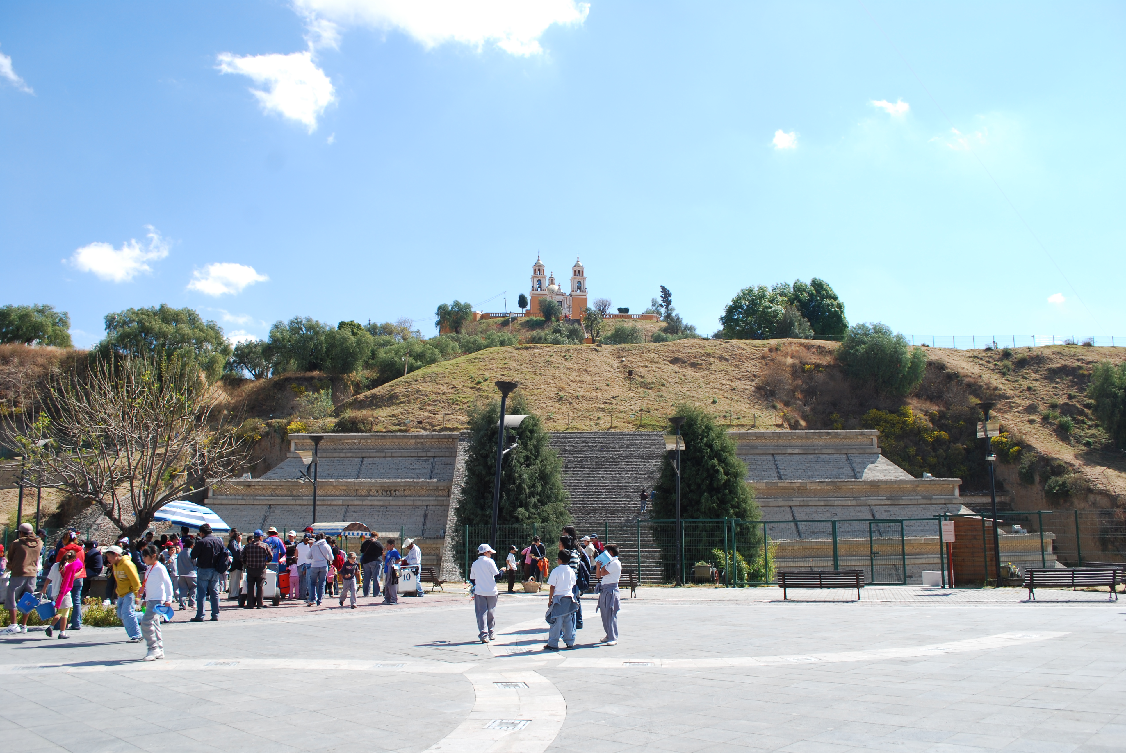 Looking over Building F towards the Nuestra Señora de los Remedios Church in Cholula, Puebla, Mexico